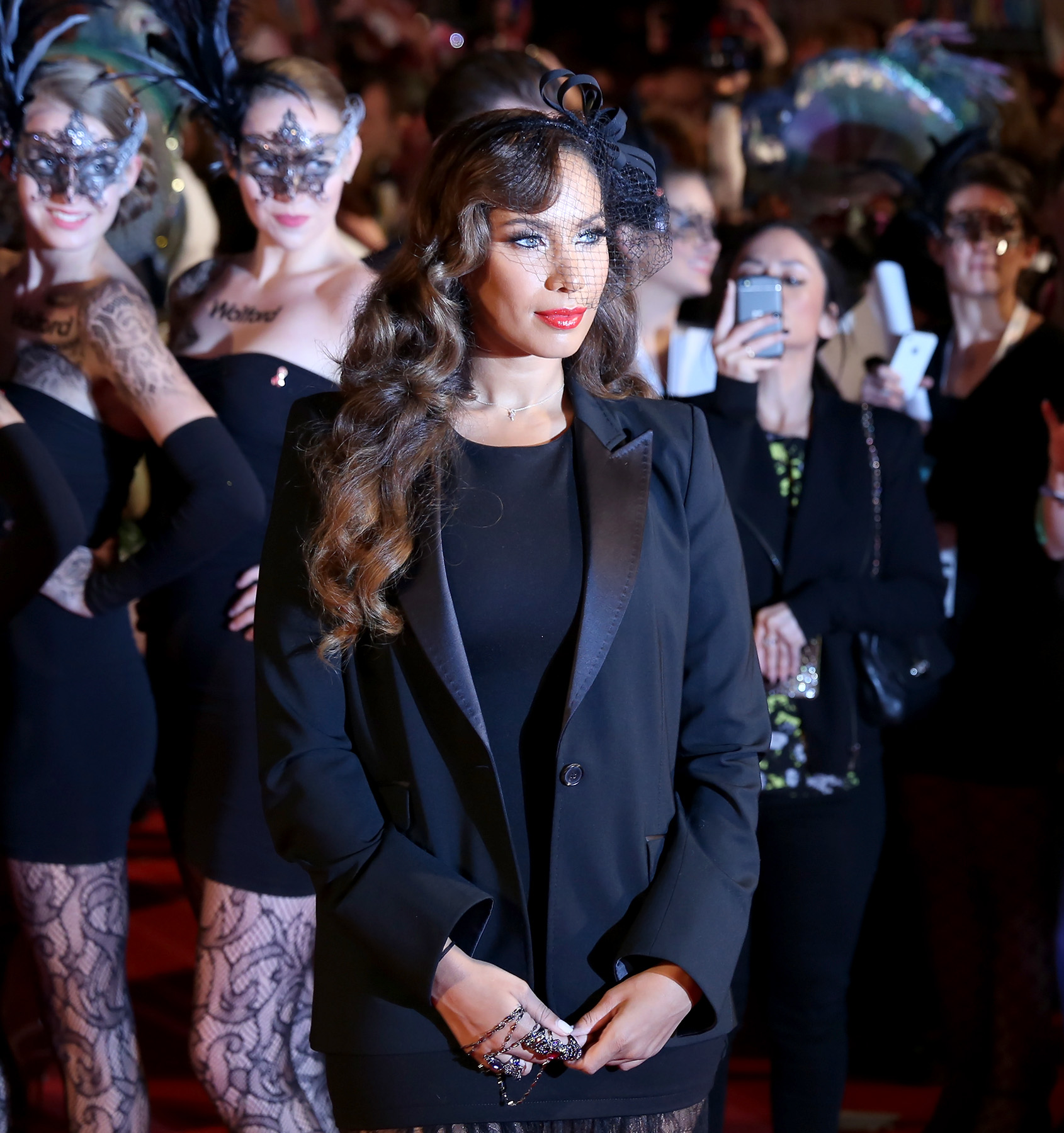 Life Ball 2014: Leona Lewis on the red carpet on the square in front of the Rathaus (Town Hall) of Vienna, Austria.